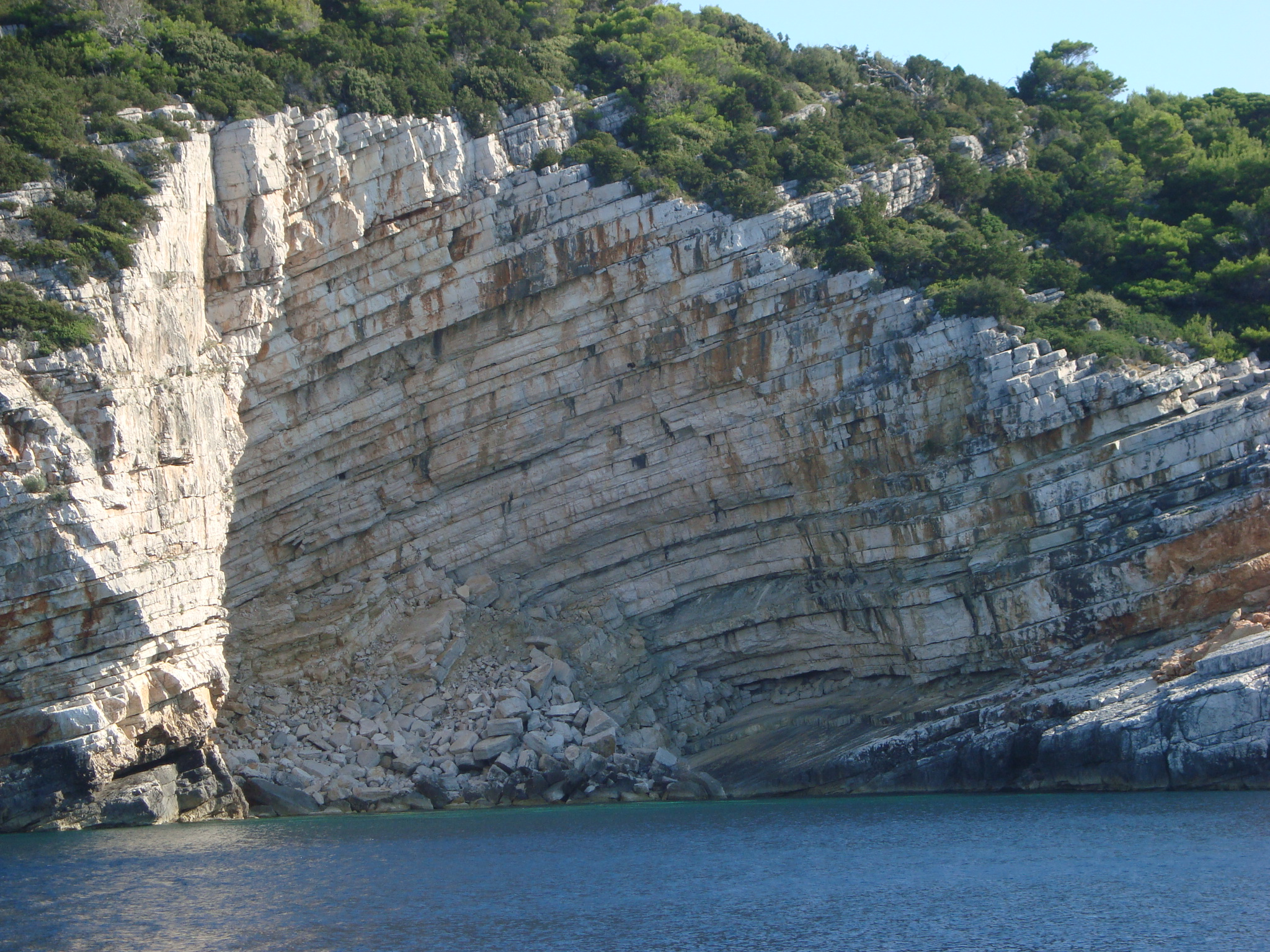 Zakamenica area, where the waves have made a amphitheater shape in solid rock during the years, on the island of Mljet, Croatia.